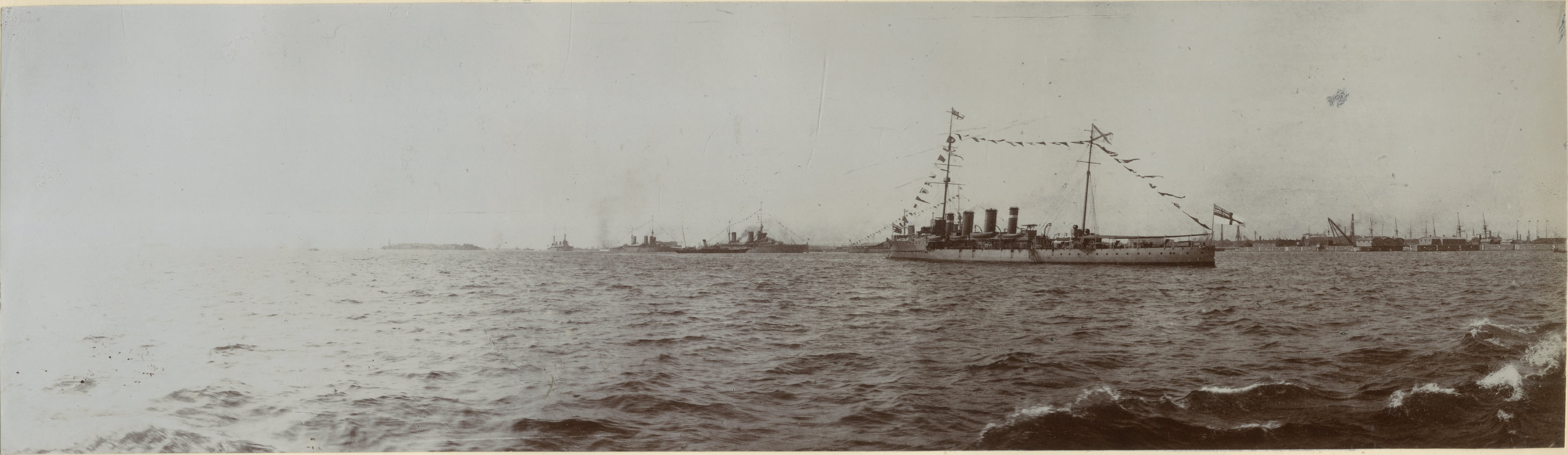 The British 1st Battlecruiser Squadron in Kronstadt, Russia, in June 1914.